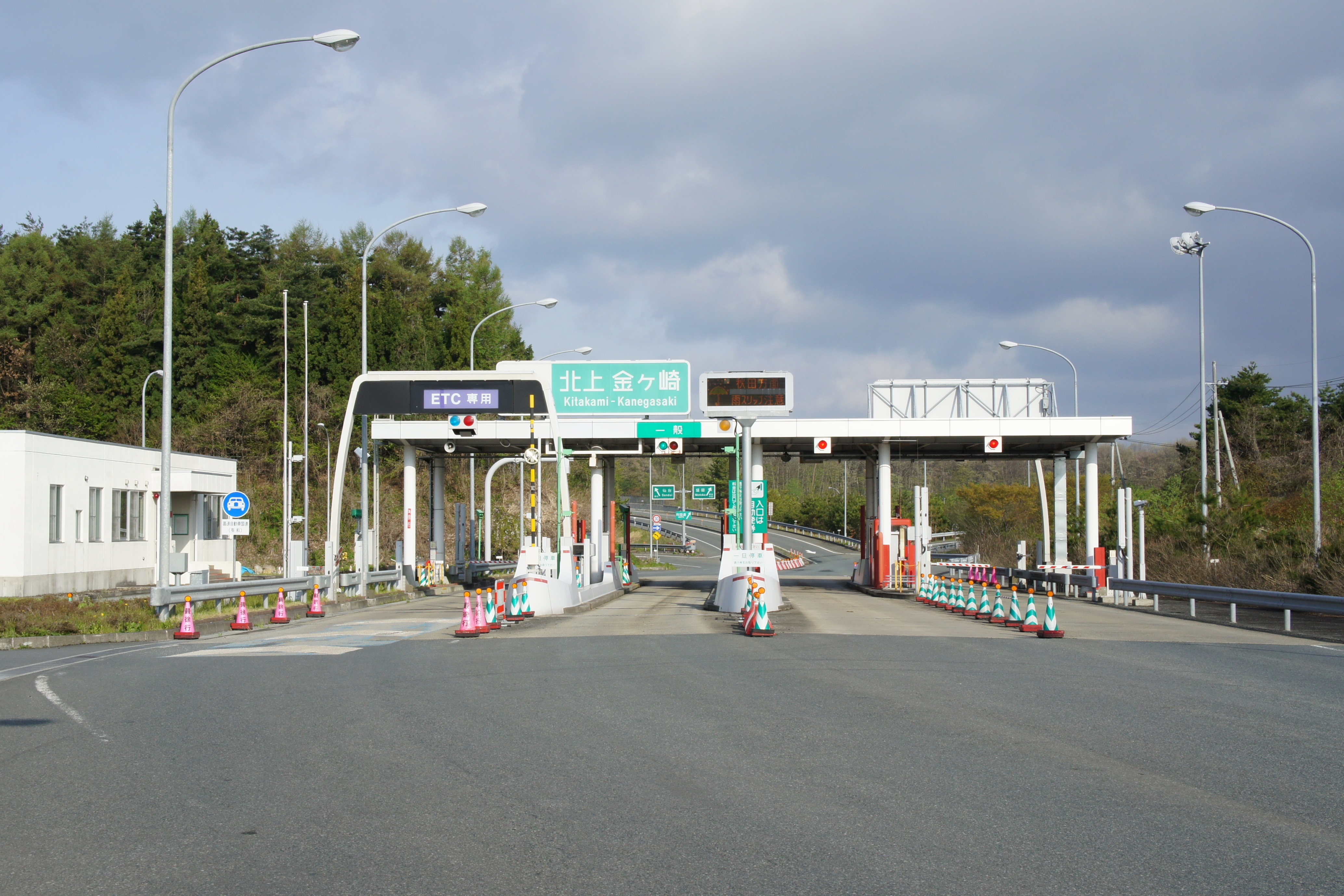 Kitakami-Kanegasaki Interchange, Kitakami, Iwate, Japan